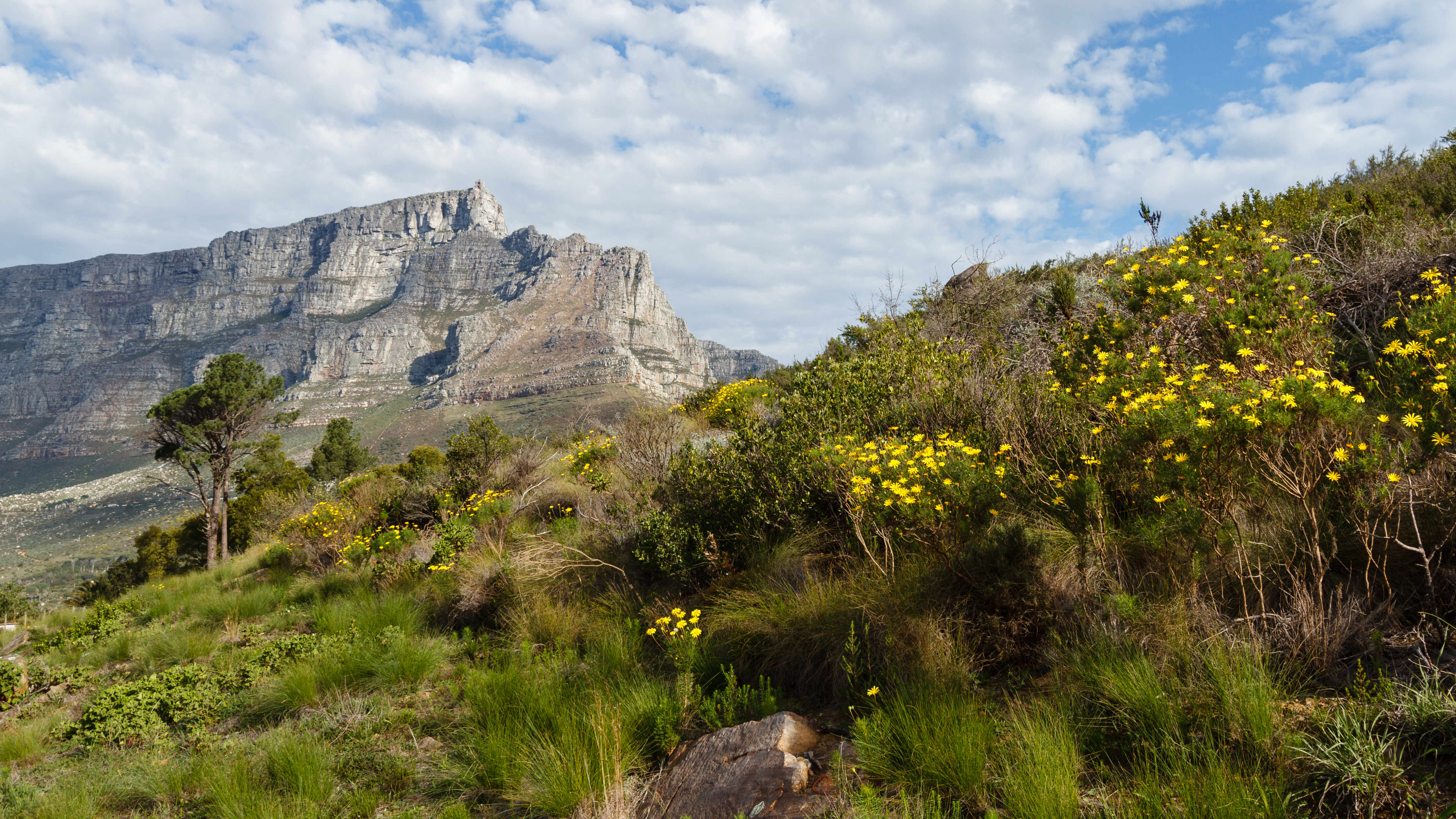 The Table Mountain in Cape Town, seen from the hill side of Signal Hill